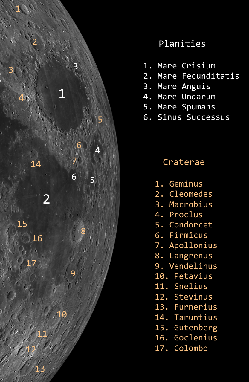 Eastern section of Lunar nearside with major plains and craters labeled